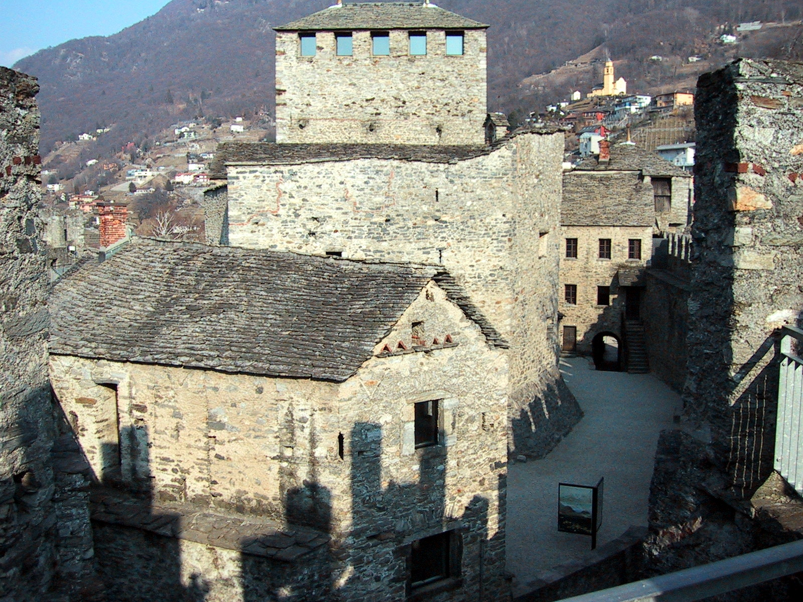 Inside castle Montebello, Bellinzona, Switzerland